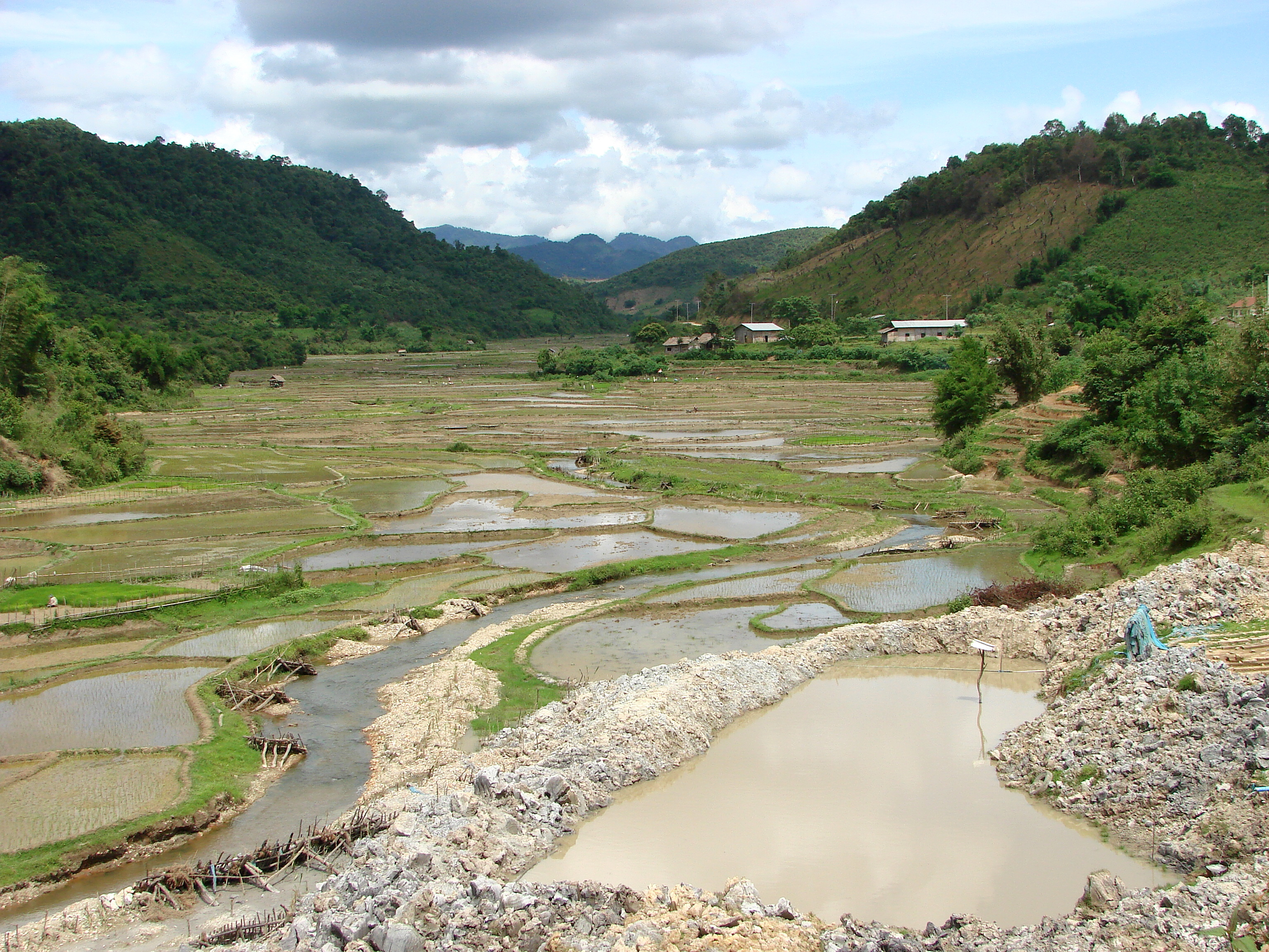 Countryside around Sam Neua, Laos. June 2009.